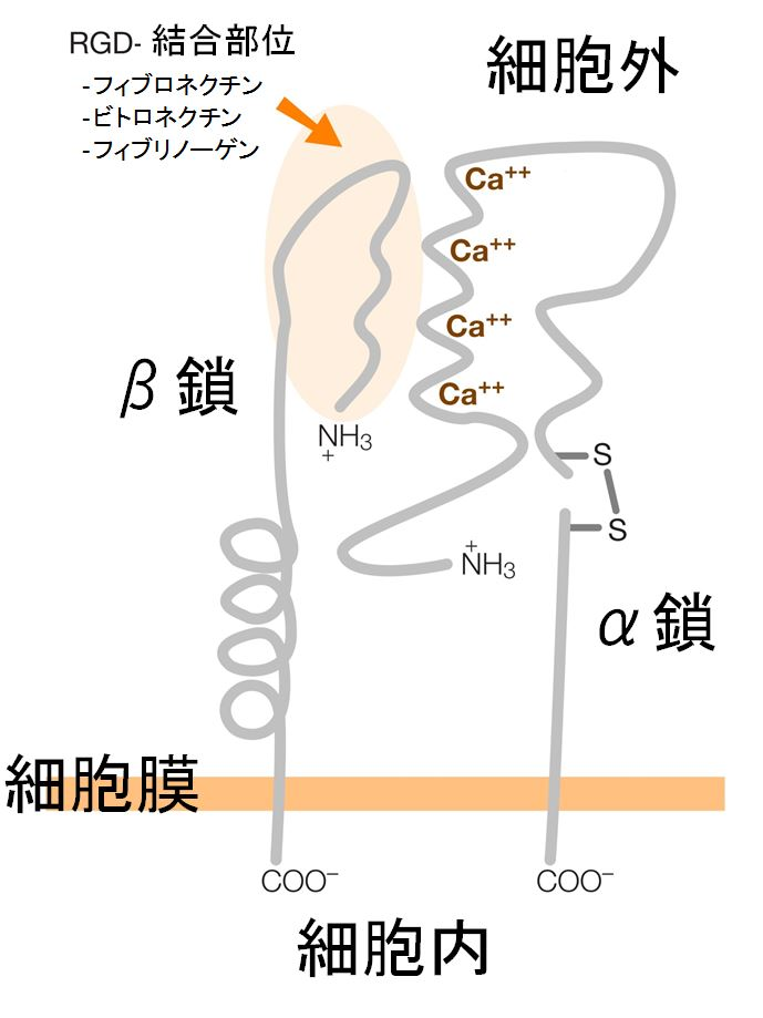 japanese version of integrin